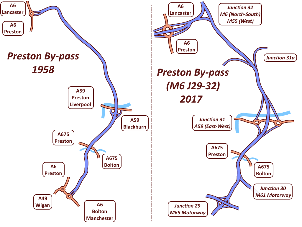 Comparative route of the Preston by-pass (left upon opening, right as of 2017), drawn by myself using reference maps. Source for 1958: Source for 2017